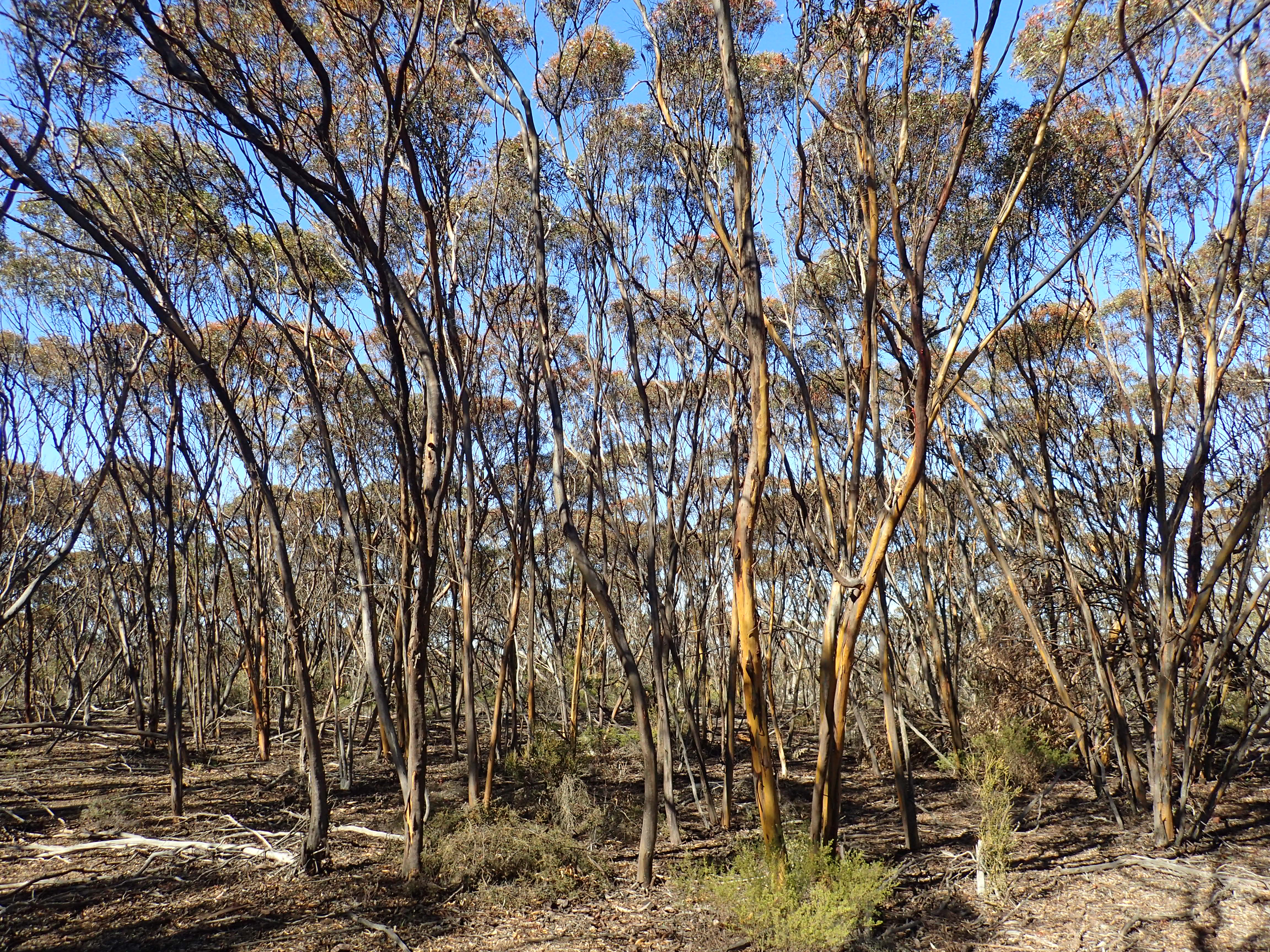 Forest of Eucalyptus extensa growing near Ravensthorpe, Western Australia